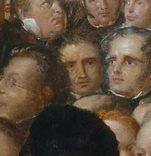 Captain Charles Stuart between Thomas Scales (left) and Sir John Jeremie in a detail from the The Anti-Slavery Society Convention, 1840, by Benjamin Robert Haydon (died 1846), given to the National Portrait Gallery, London in 1880 by the British and Foreign Anti-Slavery Society. Oil on canvas, 1841. 117 in. x 151 in. (2972 mm x 3836 mm). Quote from the description at the National Portrait Gallery website: This monumental painting records the 1840 convention of the British and Foreign Anti-Slavery Society which was established to promote worldwide abolition. A frail and elderly [Thomas] Clarkson addresses a meeting of over 500 delegates. [...] Haydon later wrote: 'a liberated slave, now a delegate, is looking up to Clarkson with deep interest ... this is the point of interest in the picture, and illustrative of the object in painting it, the African sitting by the intellectual European, in equality and intelligence'.